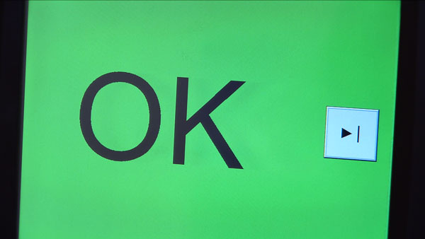 Result monitor of a body scanner